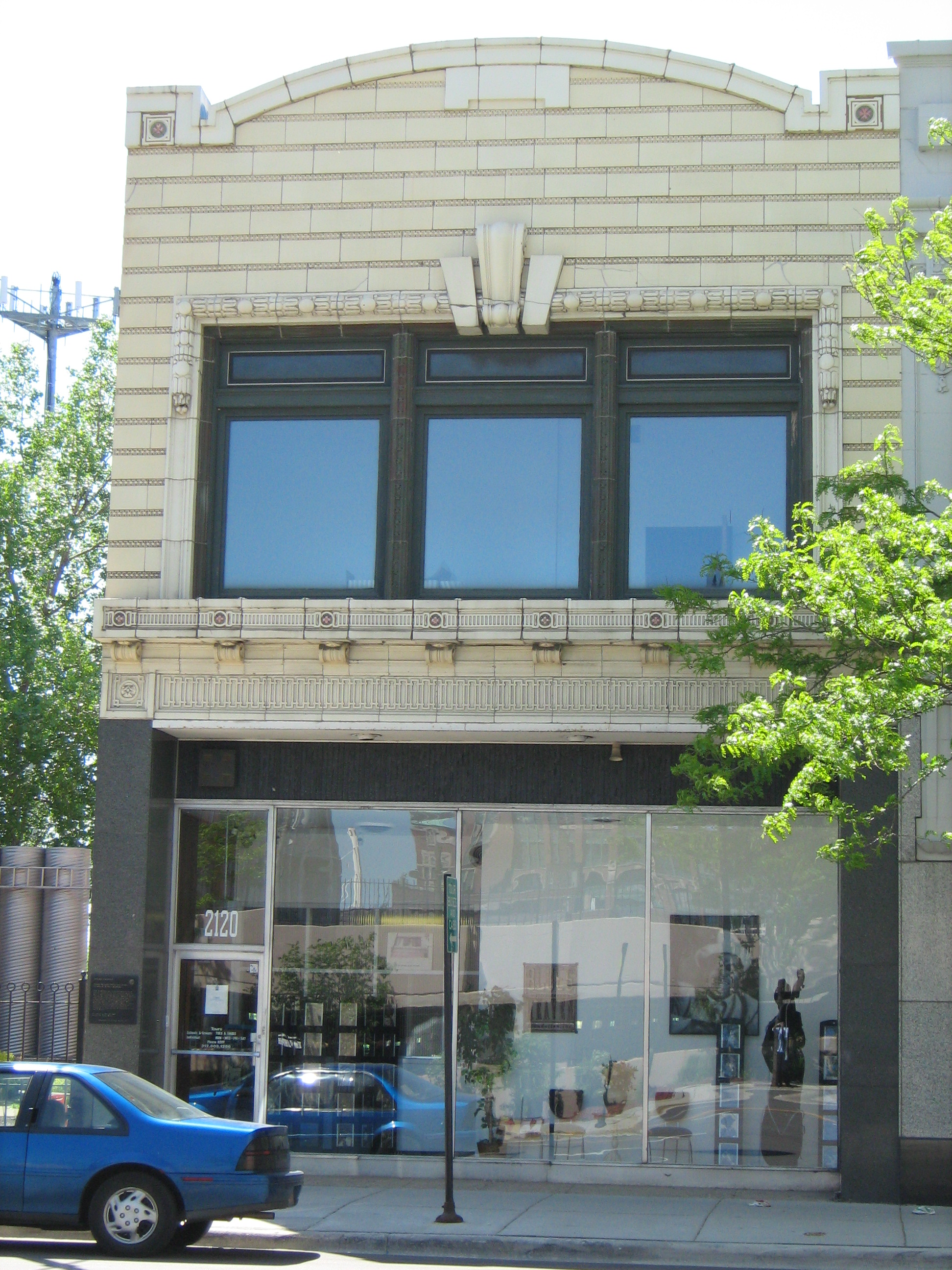 2120 S Michigan Ave Chicago, IL 60616